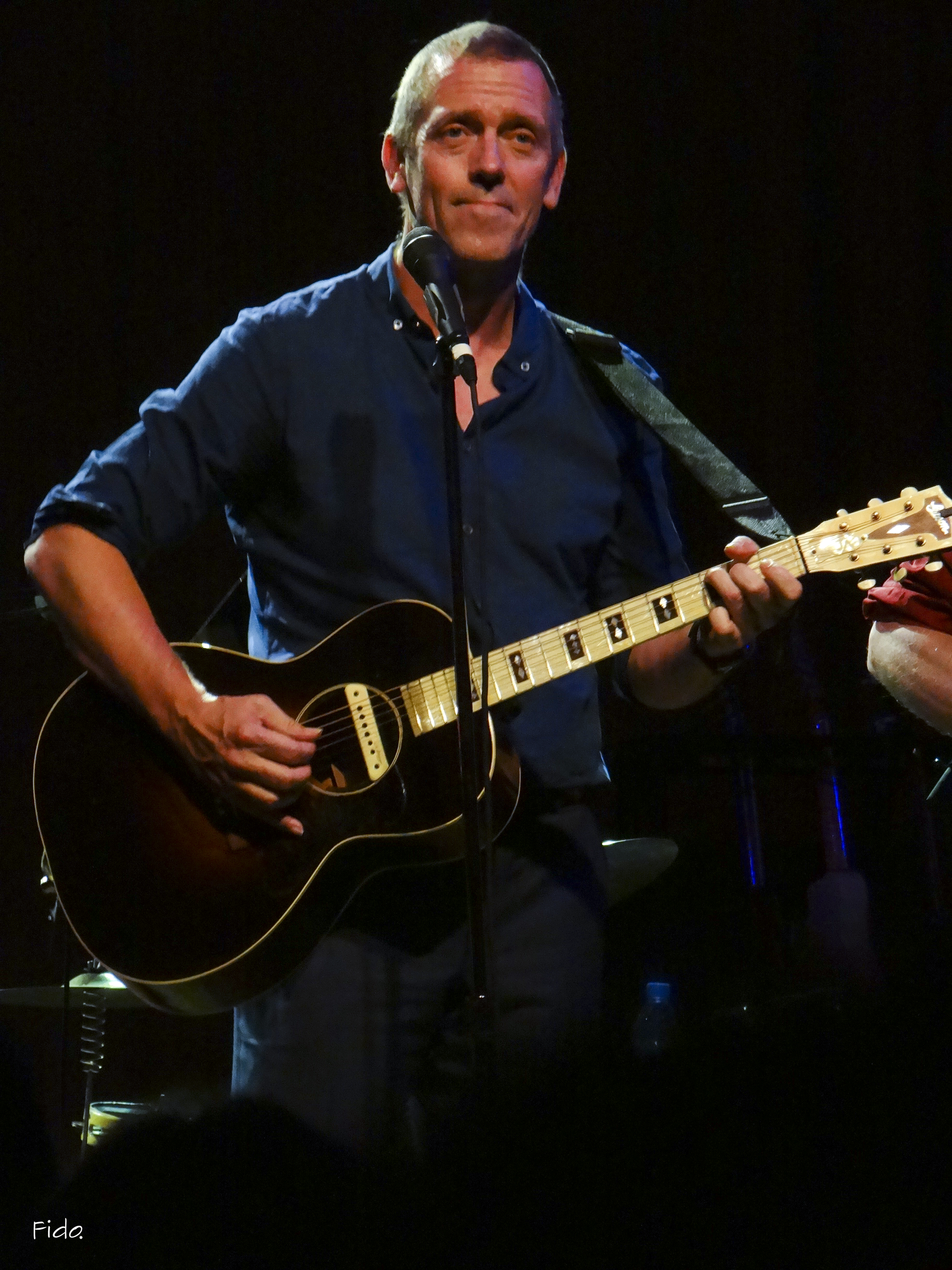 Presentation @ El Rey Theatre Los Angeles, California 5/24/2012